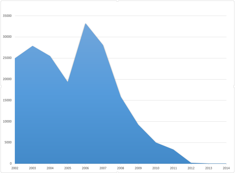 Number of reported confirmed cases of malaria in China for the period 2002–2014